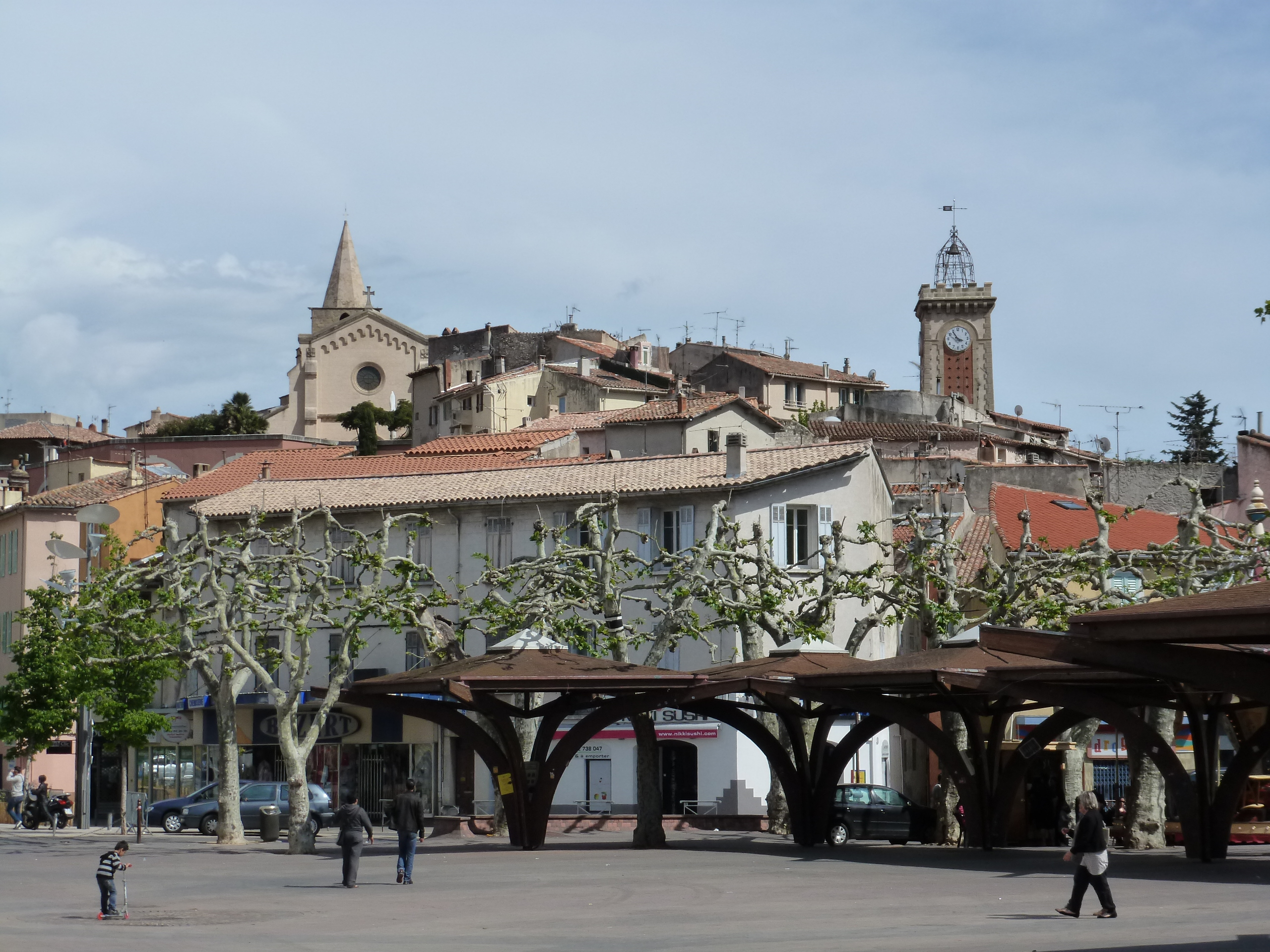 City center of Aubagne, France